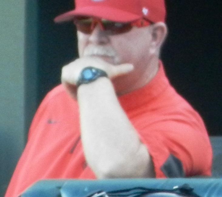 University of New Mexico baseball head coach Ray Birmingham during a game at Oregon State University on February 15, 2015.